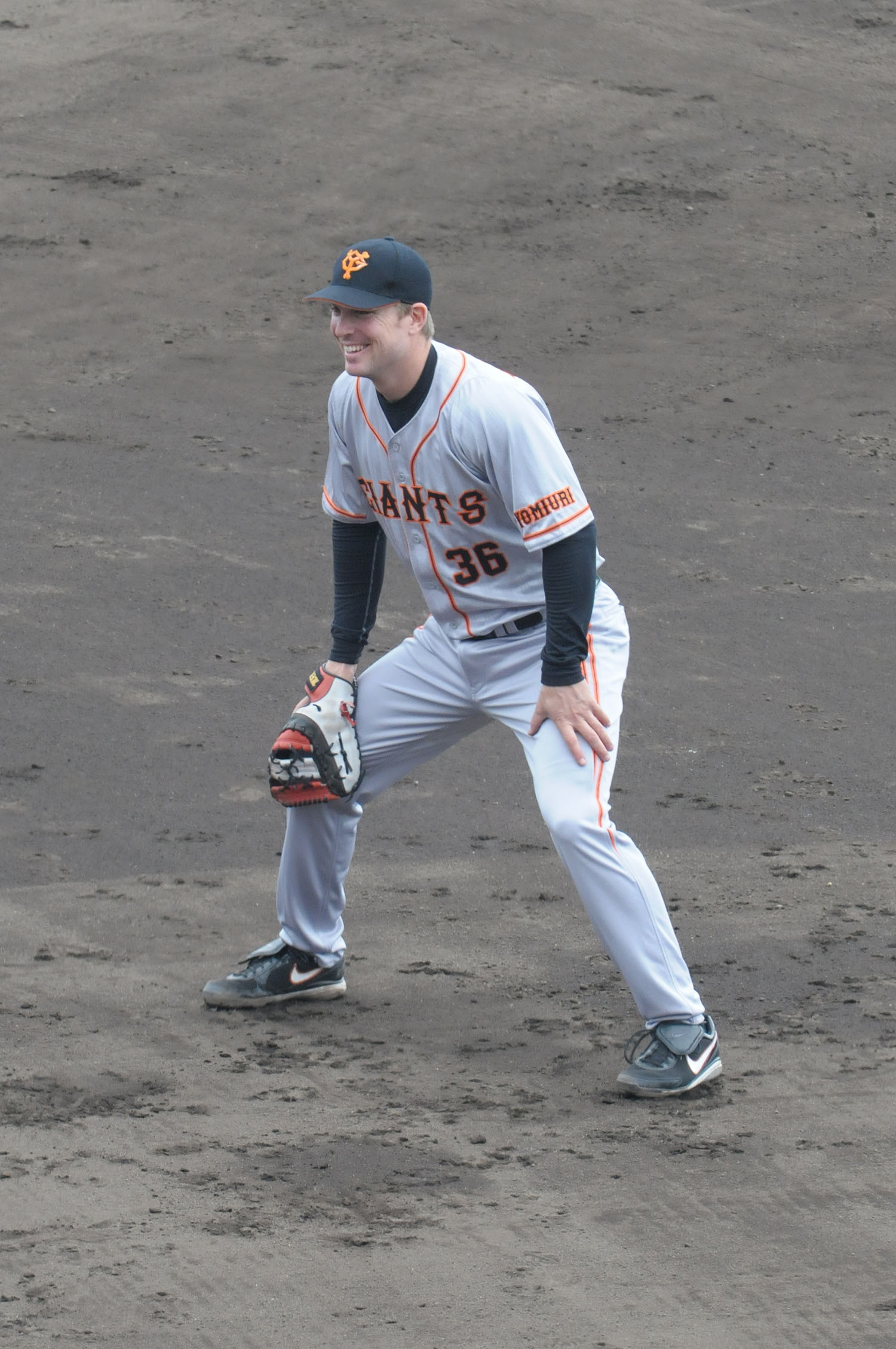 John Bowker, outfielder of the Yomiuri Giants, at Akita Prefectural Baseball Stadium.